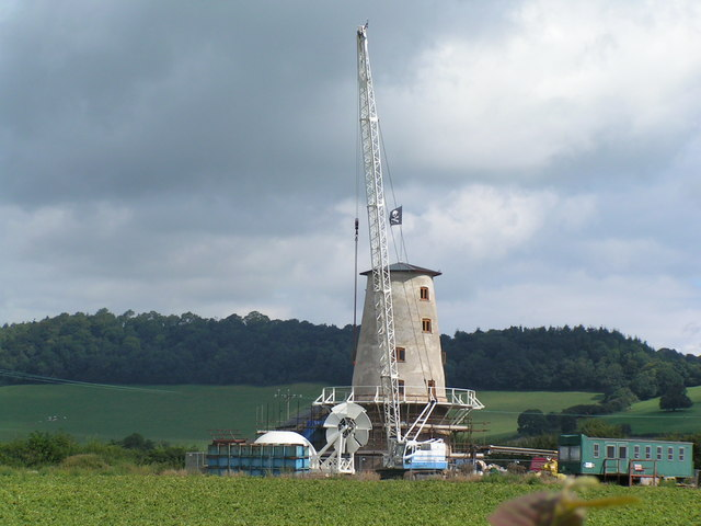 Converting an old windmill